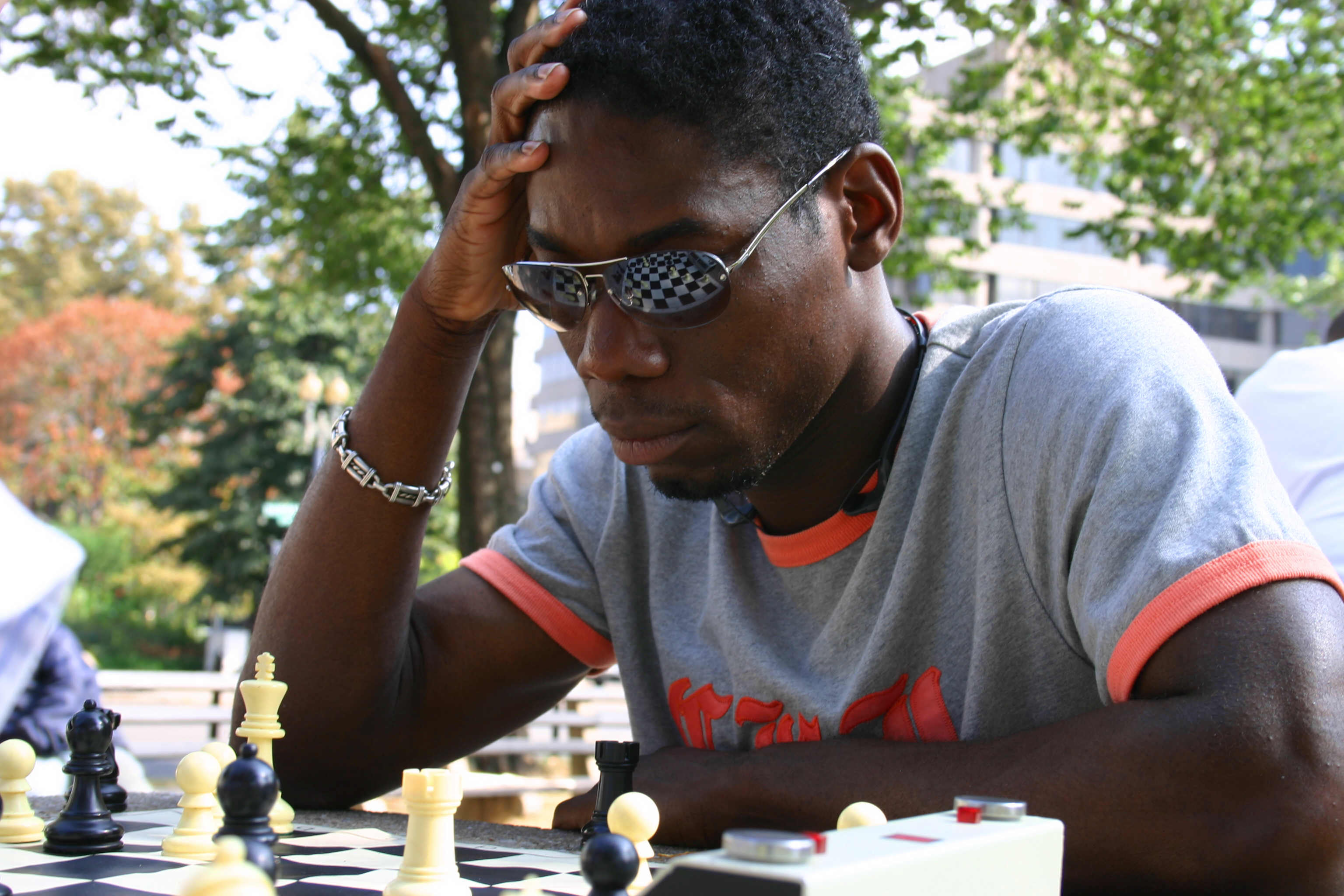 Chess . Dupont Circle, NW WDC . Sunday afternoon, 18 September 2005 Elvert Xavier Barnes Photography